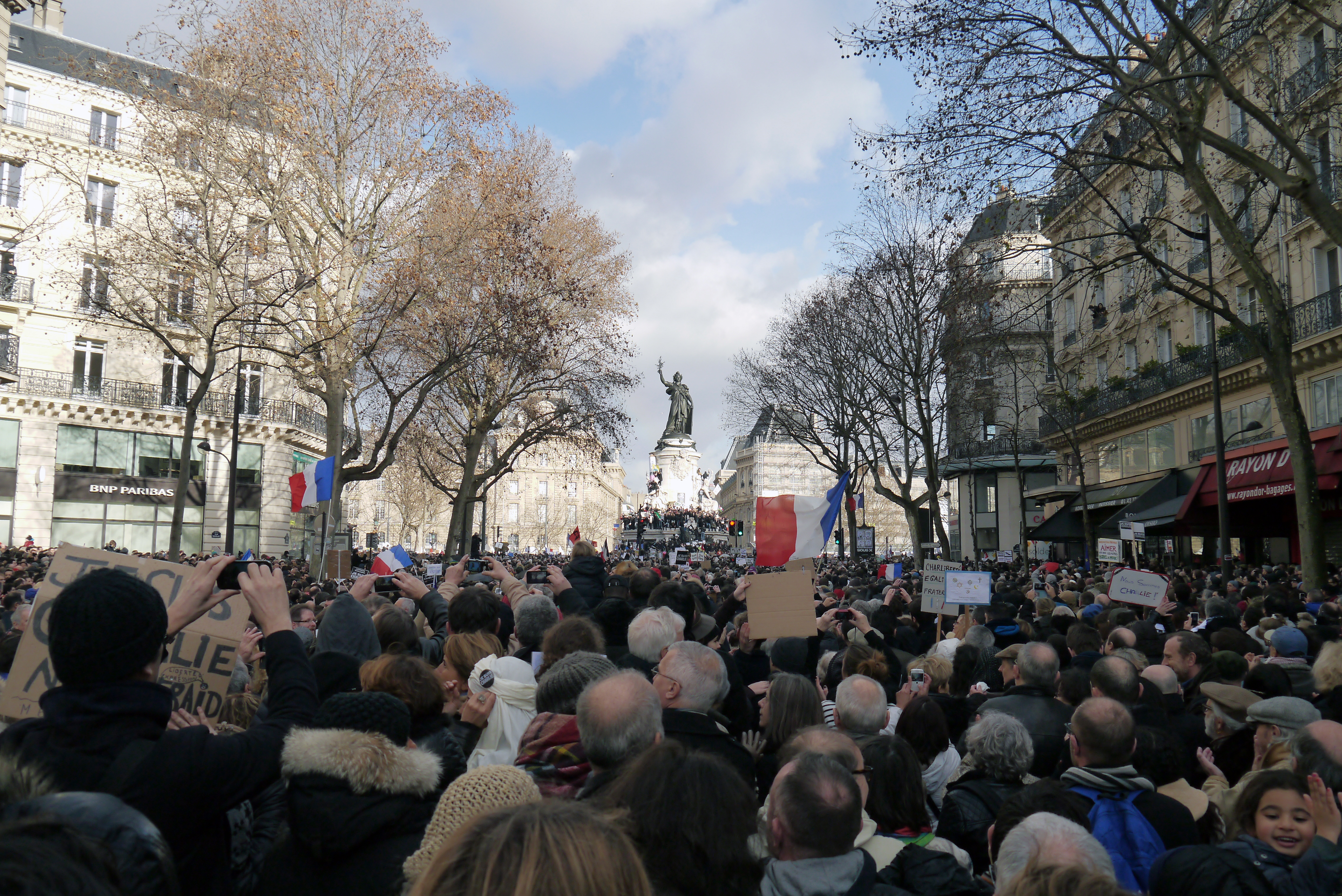 Paris rally in support of the victims of the 2015 Charlie Hebdo shooting, 11 January 2015.